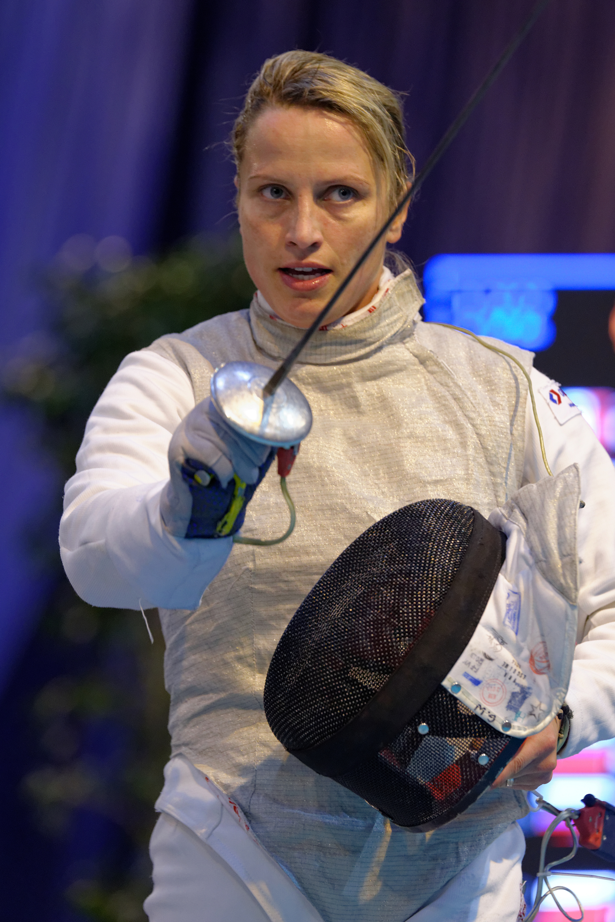 Poland's Małgorzata Wojtkowiak at the Saint-Maur Women's Foil World Cup.